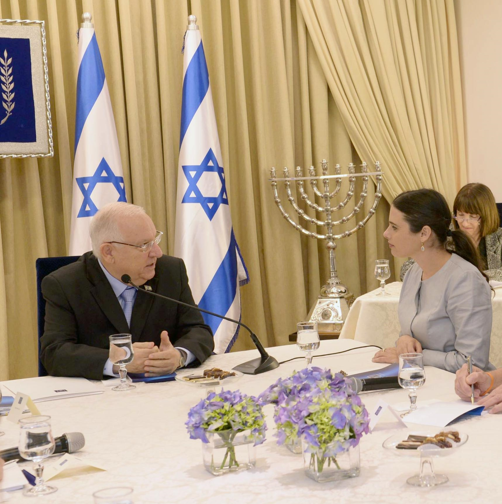 Reuven Rivlin (President of Israel) and Ayelet Shaked (HaBait HaYehudi)